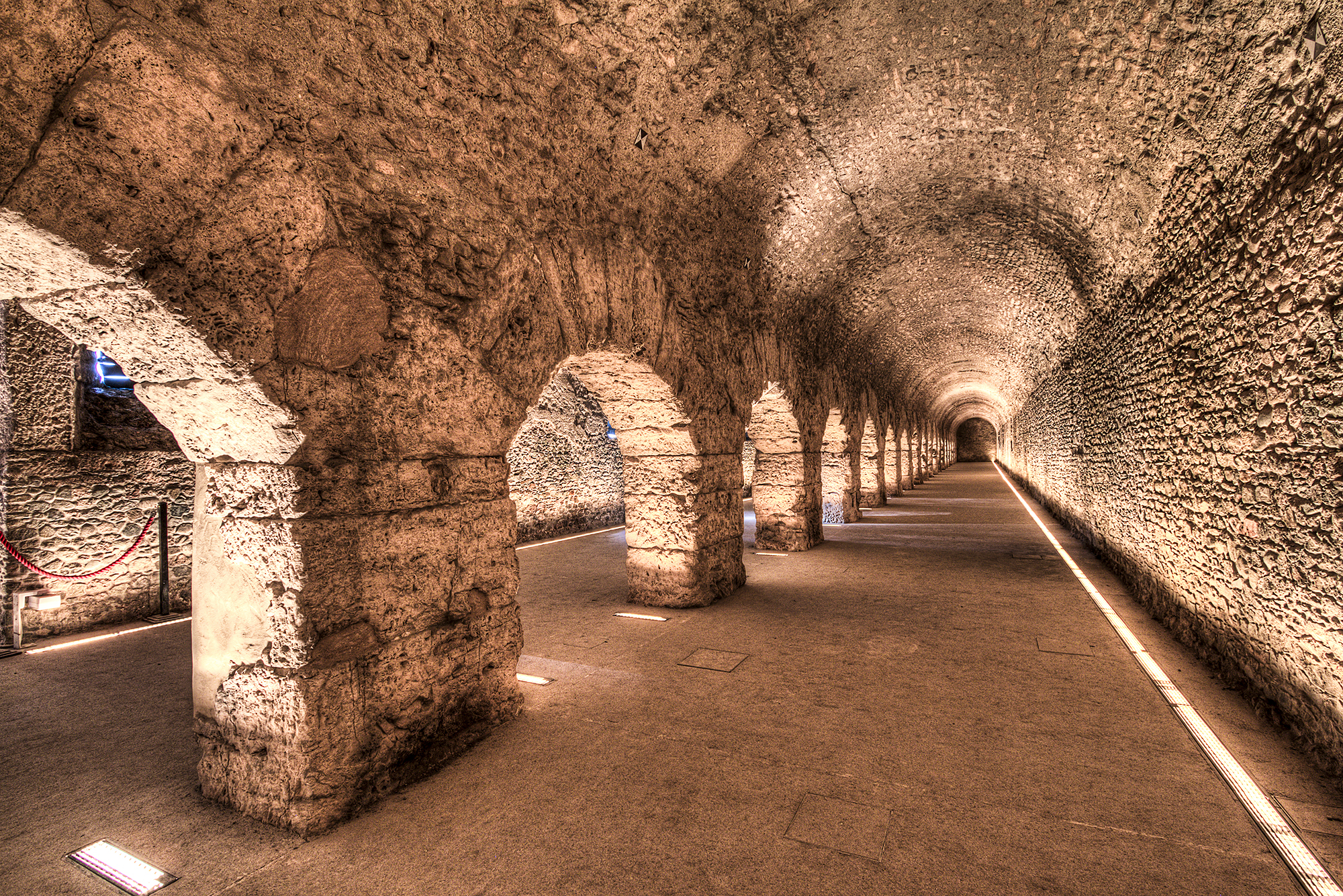 CRIPTOPORTICO FORENSE di AOSTA This is a photo of a monument which is part of cultural heritage of Italy.